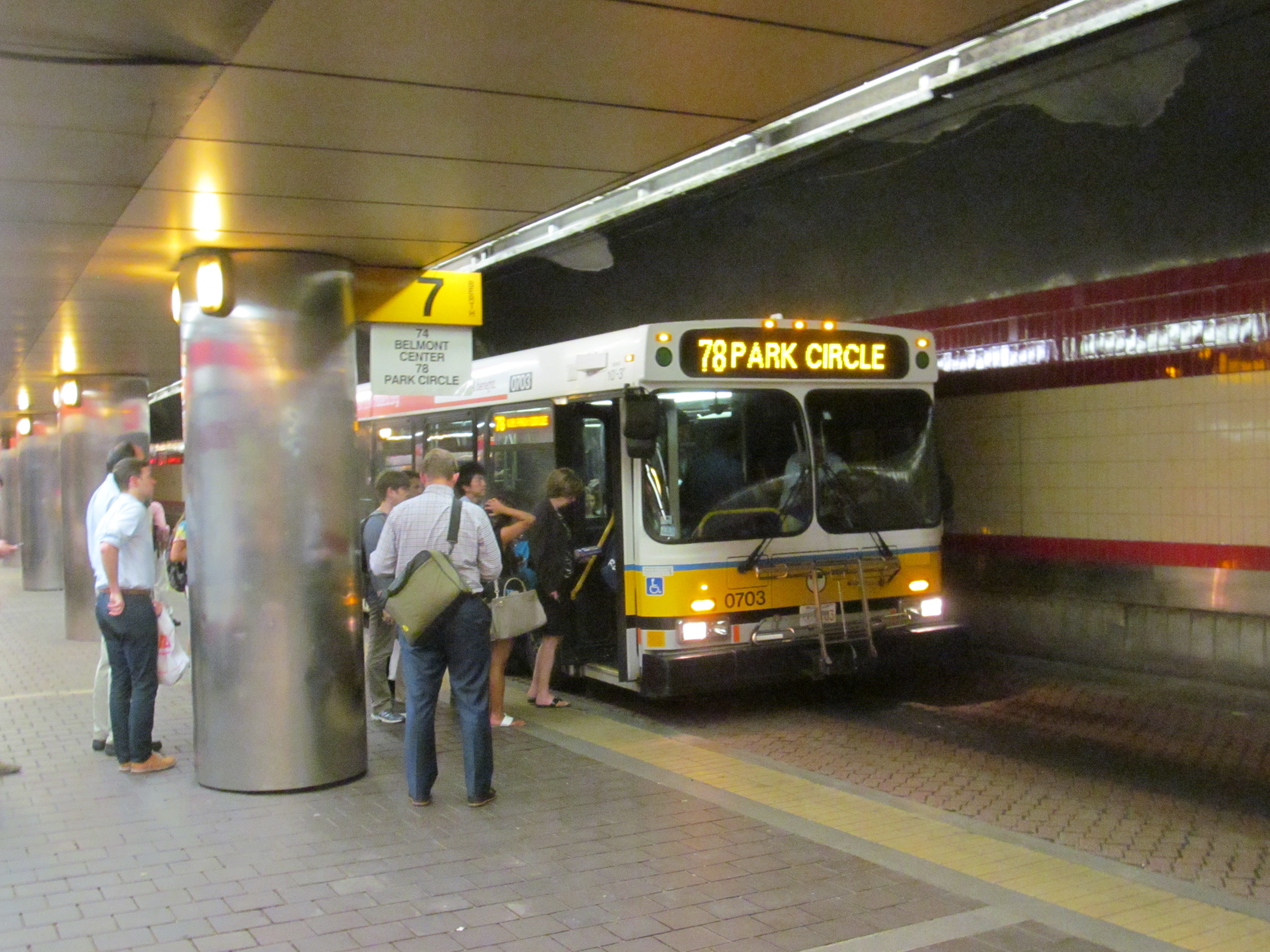 A #78 bus boards passengers in the Harvard Bus Tunnel in August 2015